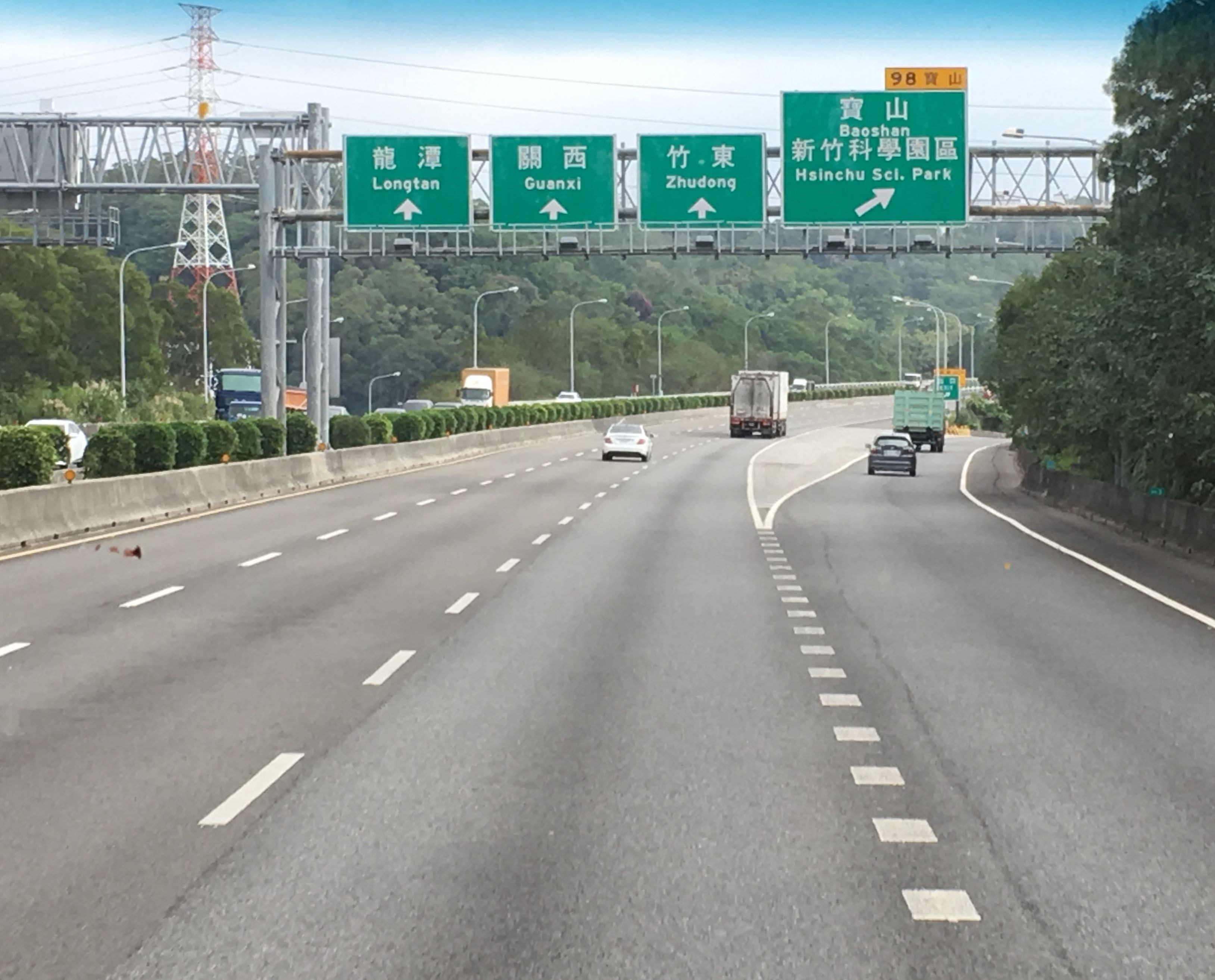 Northbound lane of Baoshan IC, Freeway 3 in Hsinchu, Taiwan.